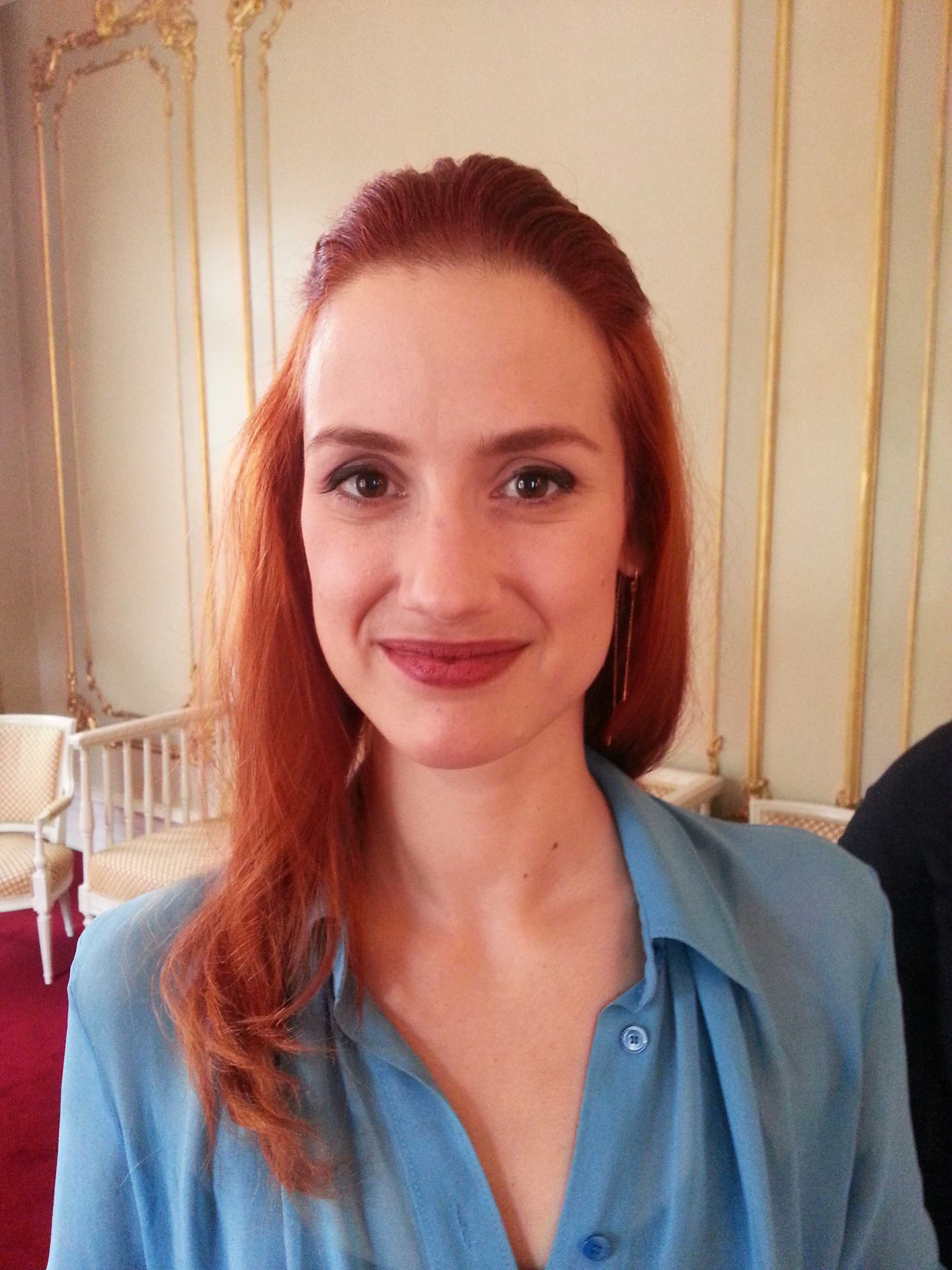 Danica Curcic in Gothenburg during the production of the film "Darling", 2016.